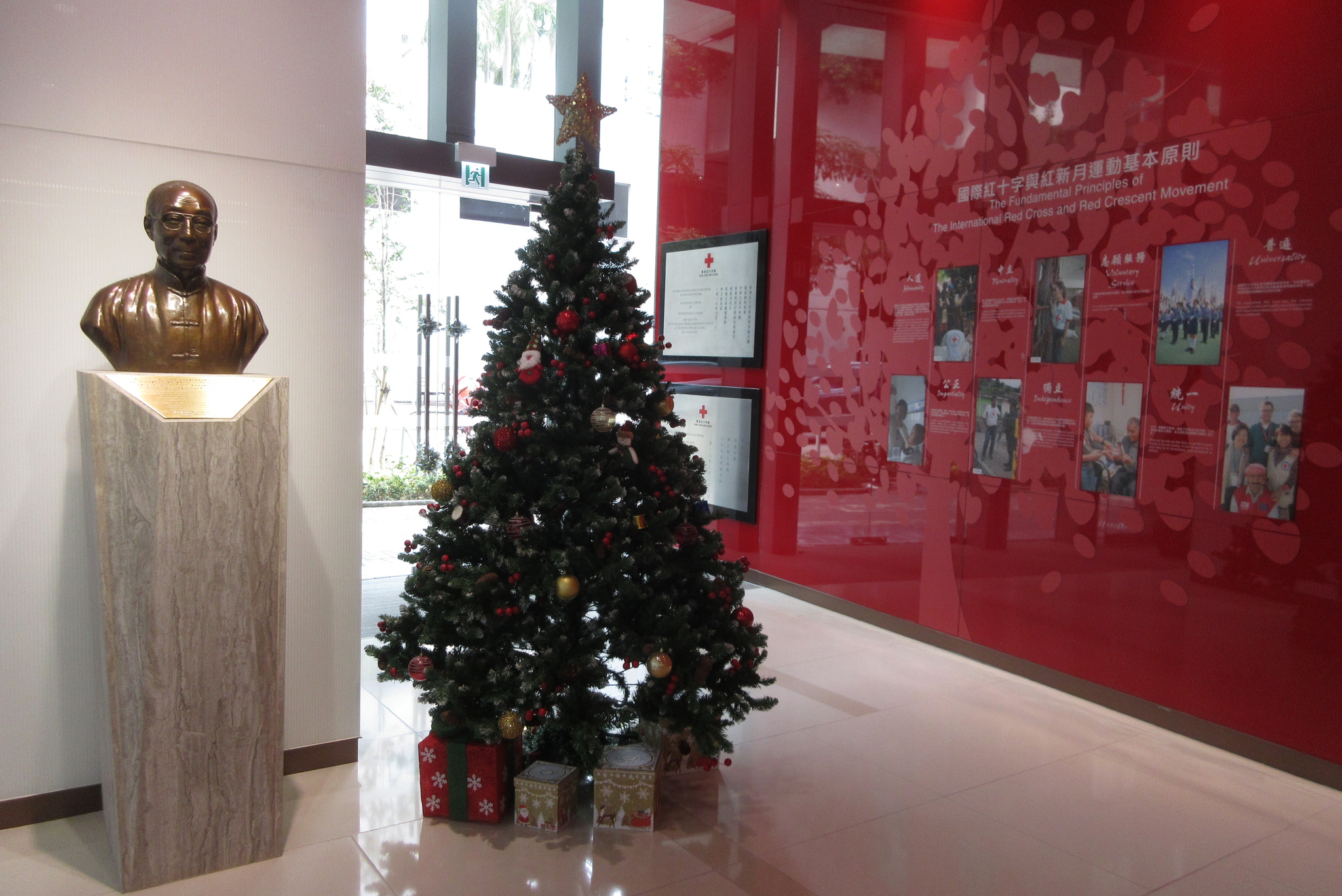 HKRC HQ 香港紅十字會總部 Hong Kong Red Cross Headquarters 邵逸夫樓 Run Run Shaw Building 旺角 Mongkok 海庭道 19 Hoi Ting Road Kln West in December 2017